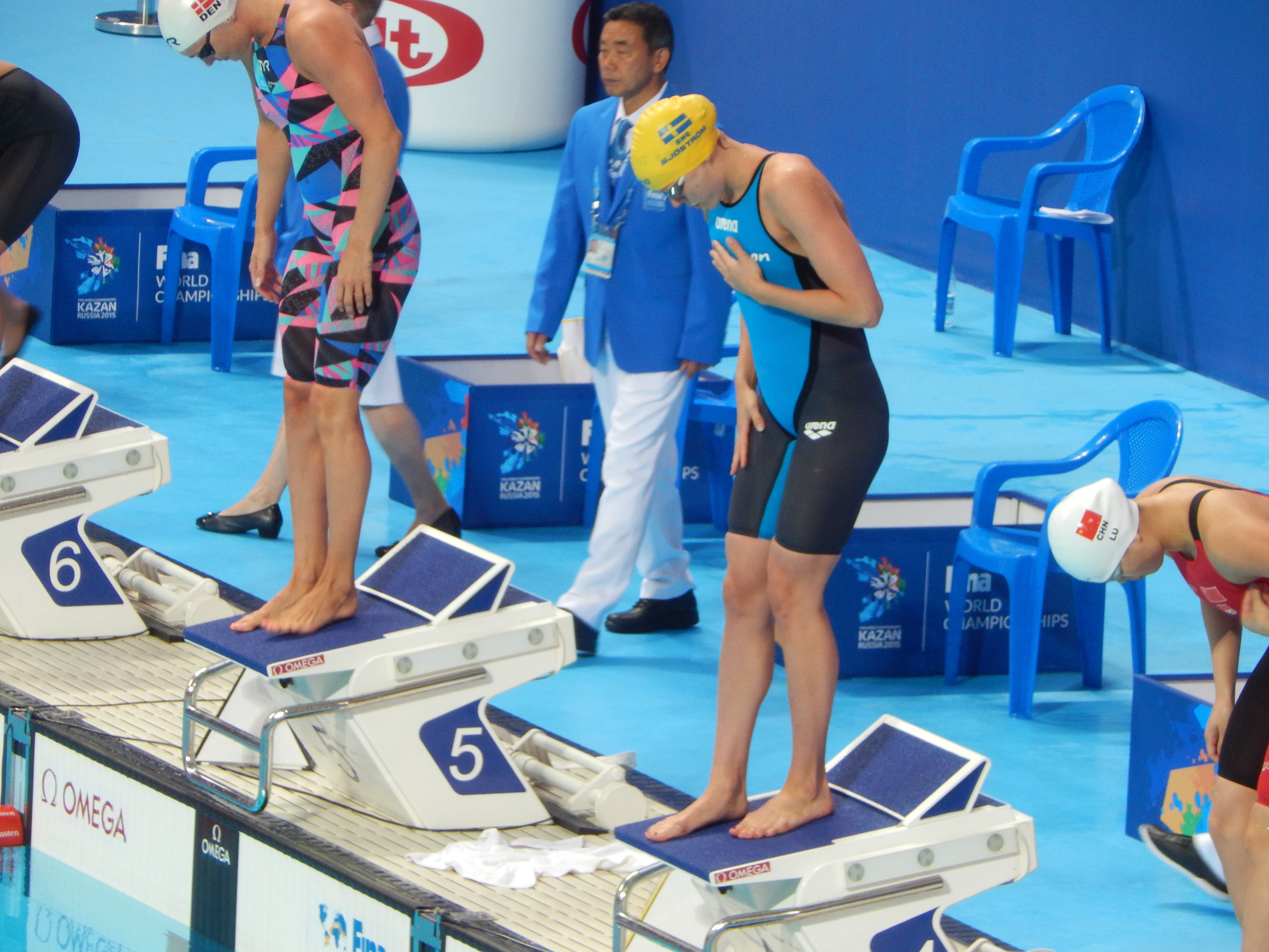 Sarah Sjöström starts in her 100m butterfly final in Kazan 2015